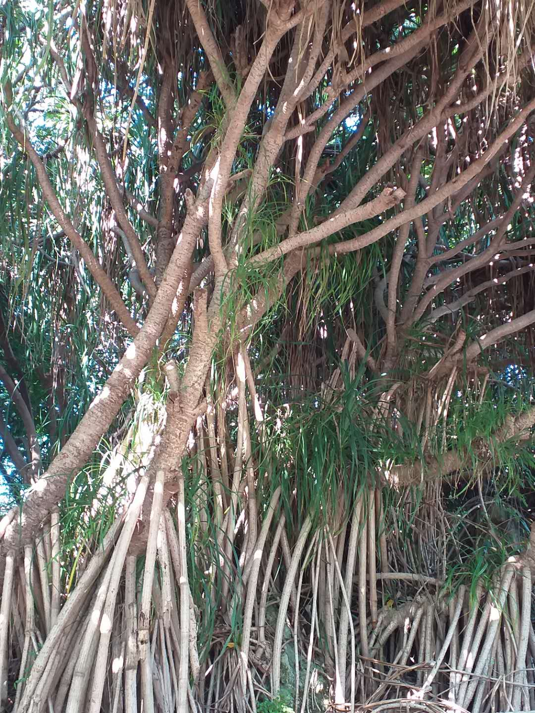 Pandanus tectorius, aerial roots are highly developed. Taichung Botanical Garden, Taiwan